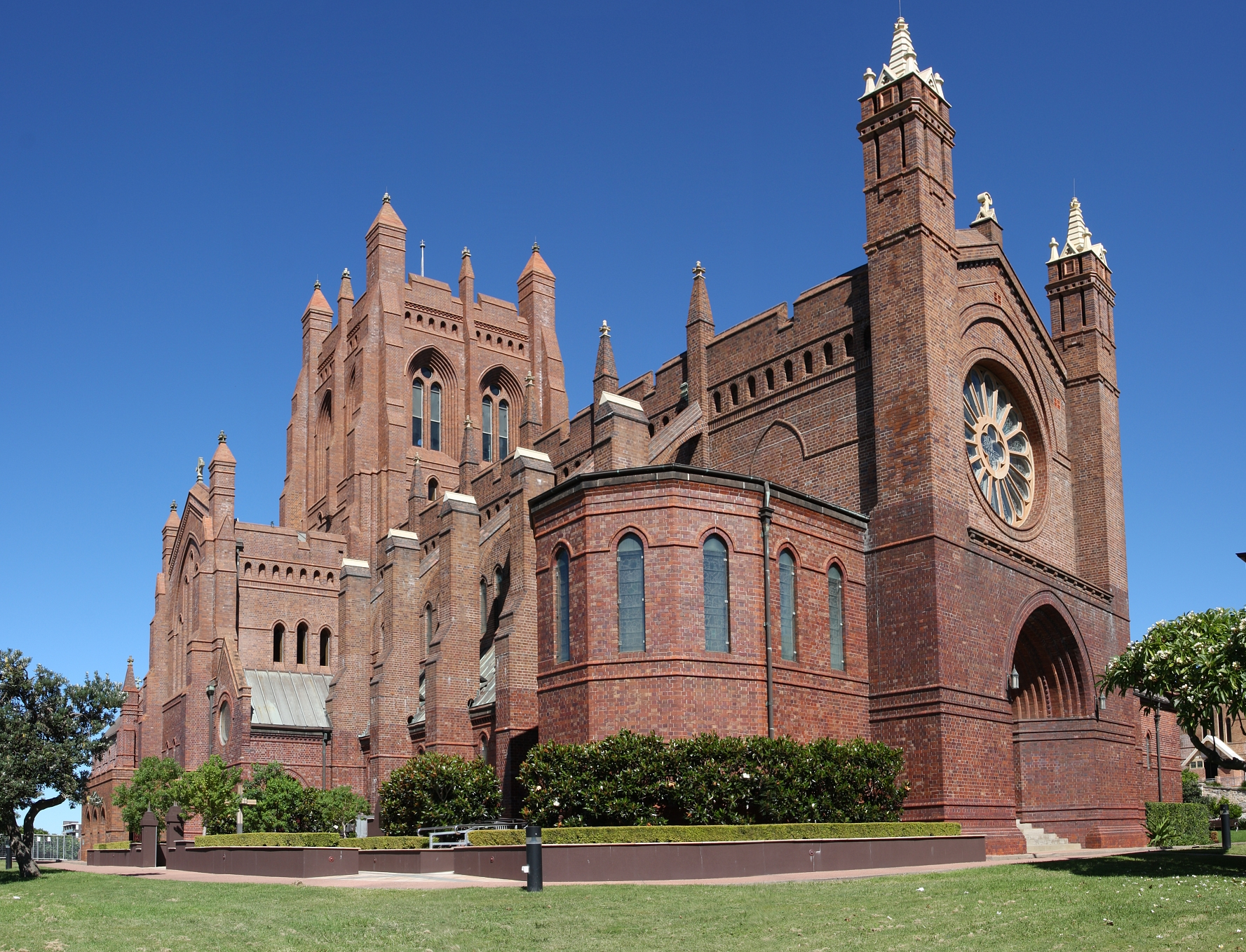 Crhist Church Cathedral